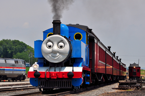 Thomas the Tank Engine pulling a train through East Strasburg's yards.